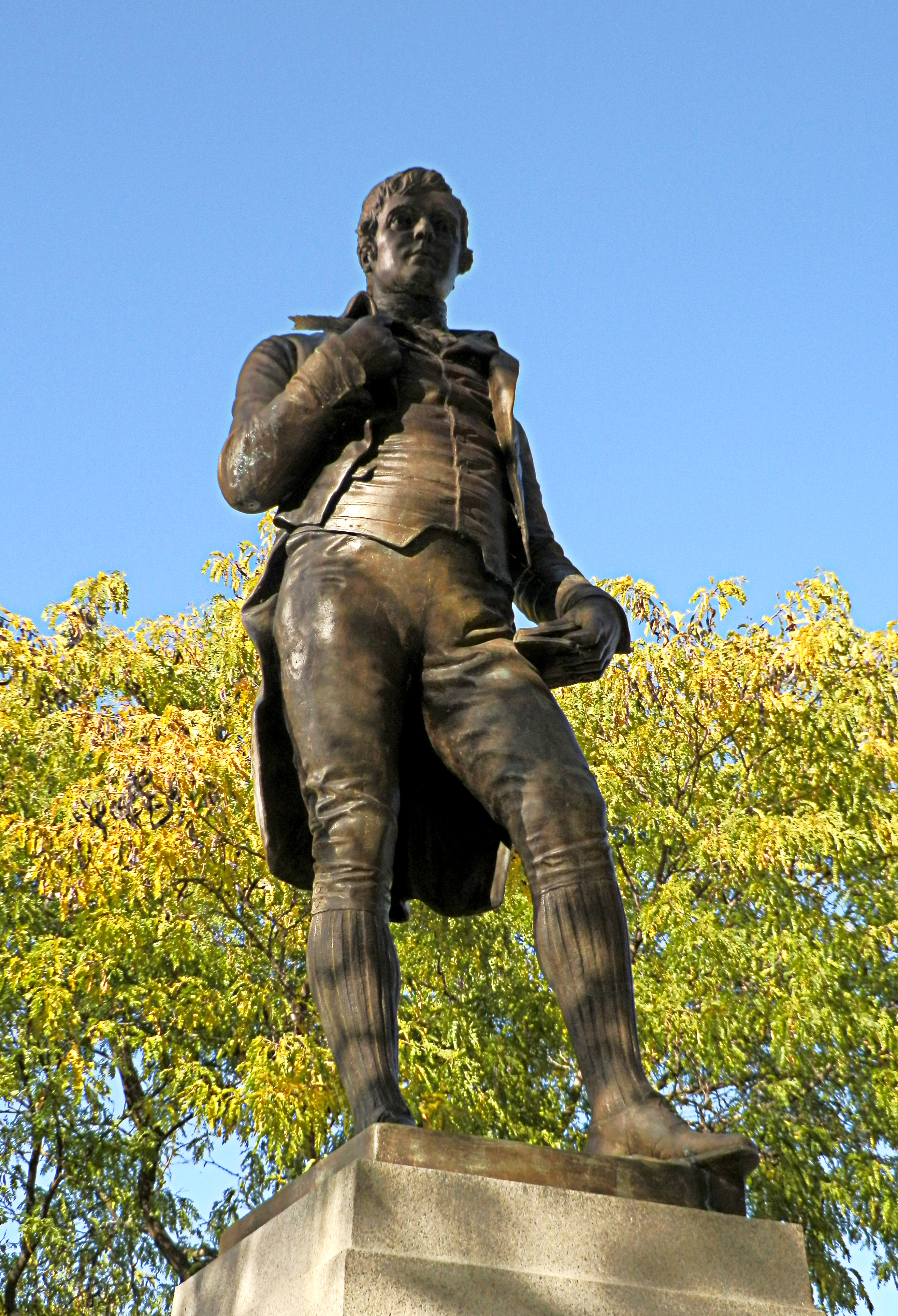 Burns Monument by William Grant Stevenson, 1909